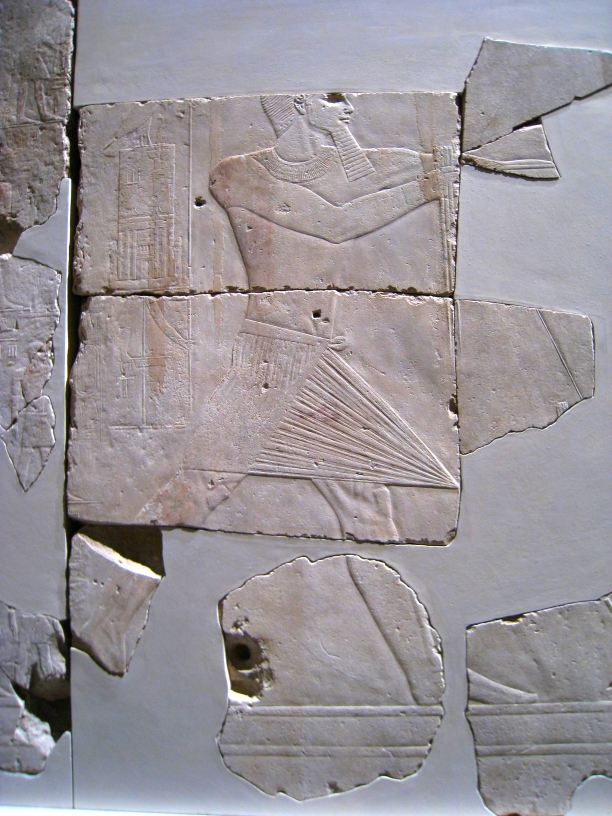 Reliefs of the funerary temple of Sahure. Pharaoh is hunting, 5th dynasty of Egypt - Egyptian museum of Berlin